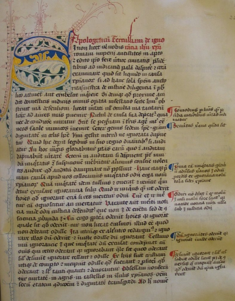 Codex Balliolensis, Tertullian's "Apologetics".